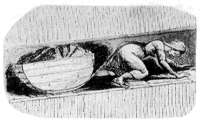 From a educational site offering free info on the victorian age. Image is a copy of one from an official report of a parliamentary commission done in the mid 18th century.